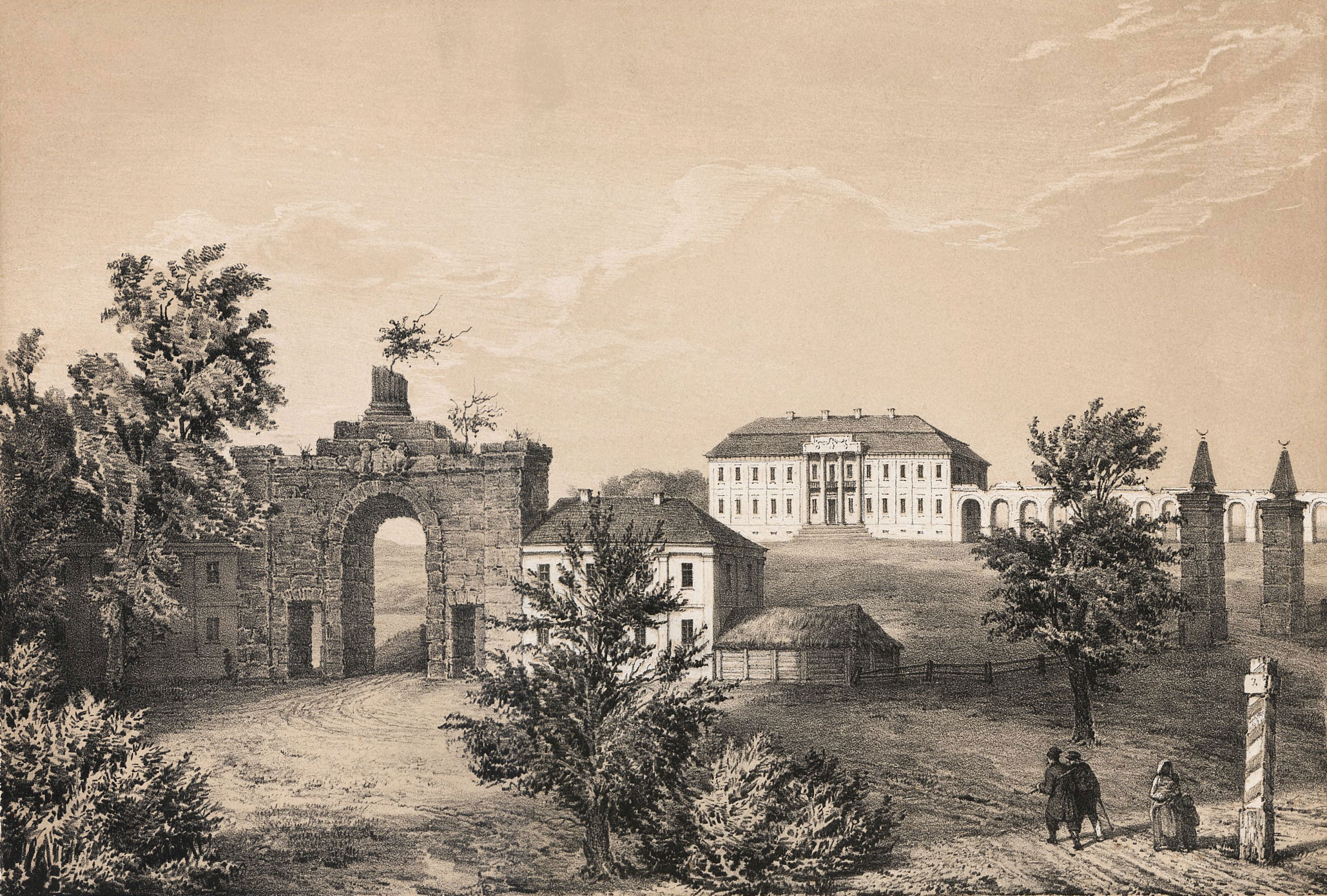 Sapieha Estate in Ružany